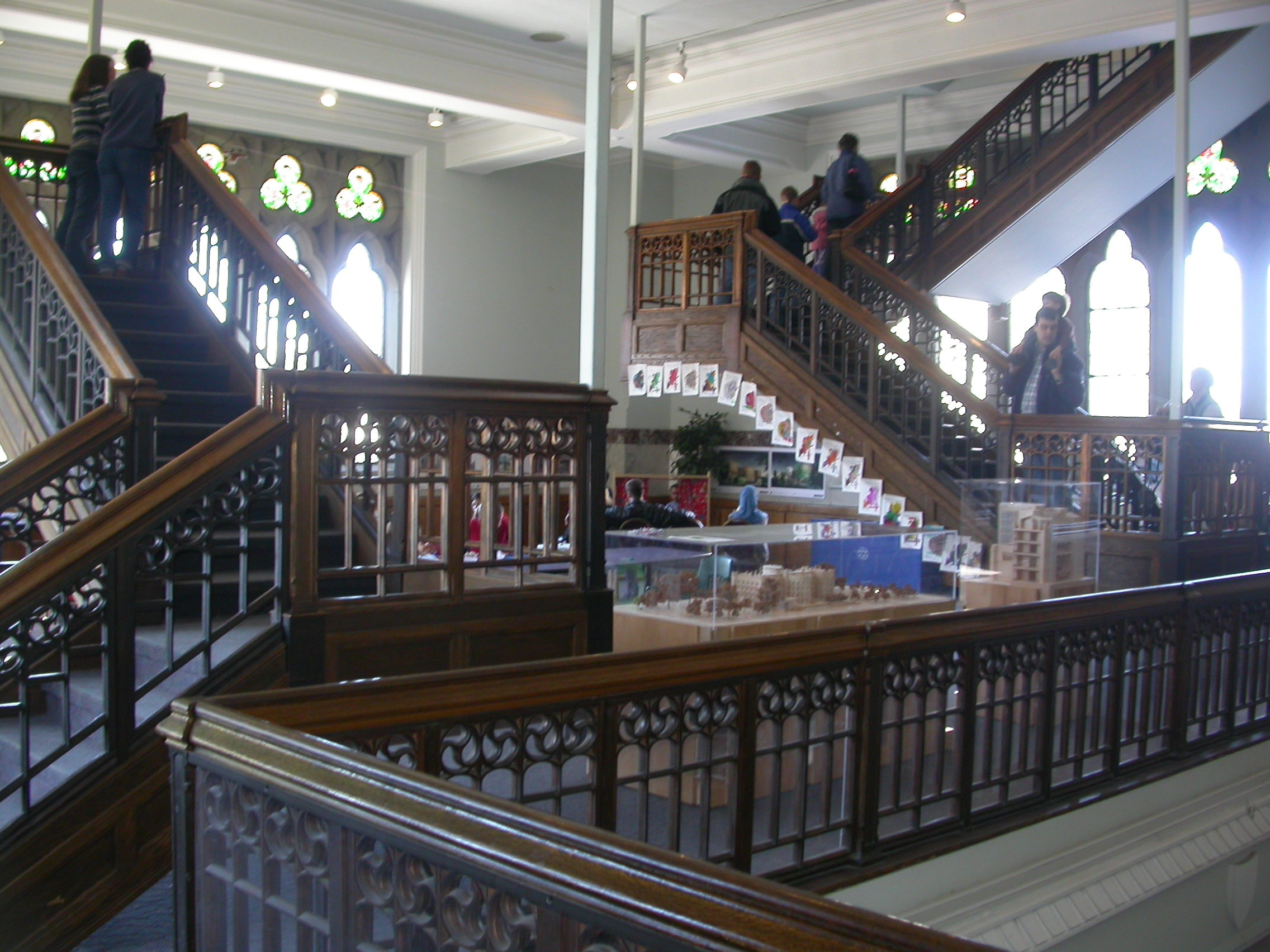 Mezzanine of the Victoria Memorial Museum building in Ottawa, Canada (current Museum of Nature)